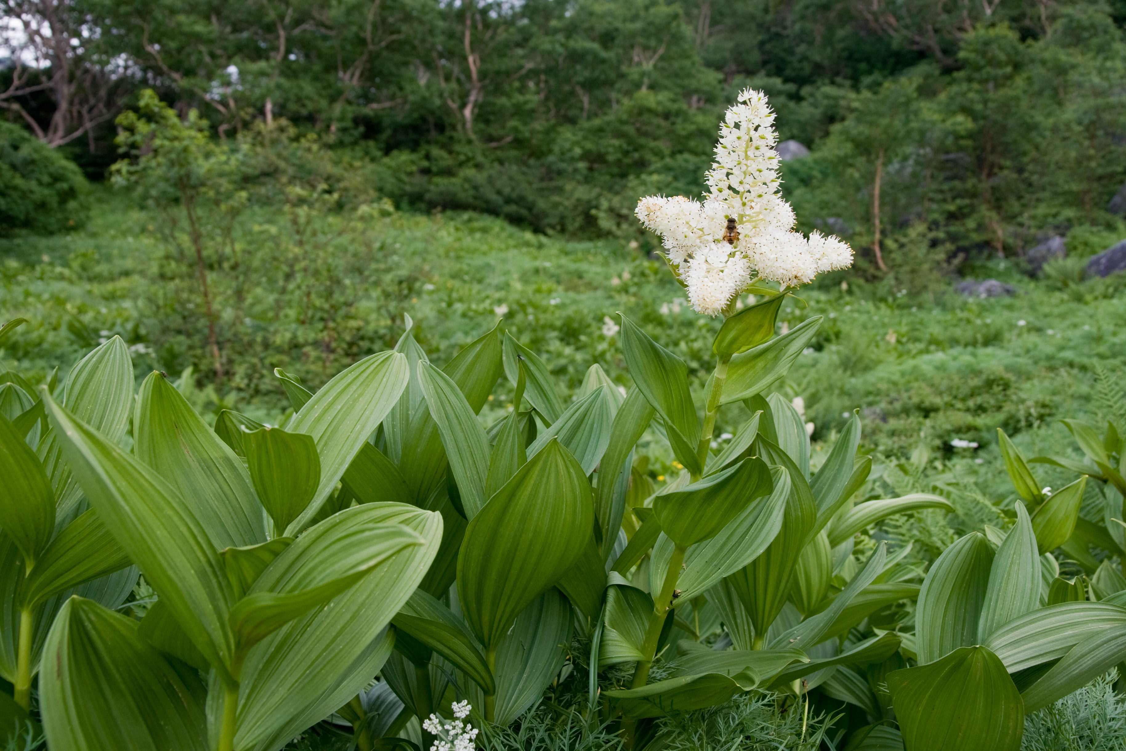 Veratrum stamineum in its natural habitat on Mt. Utsugidaira, Honshu, Japan